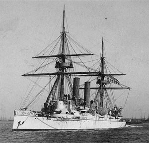 The Protected Cruiser USS Boston, Public domain photo from history.navy.mil